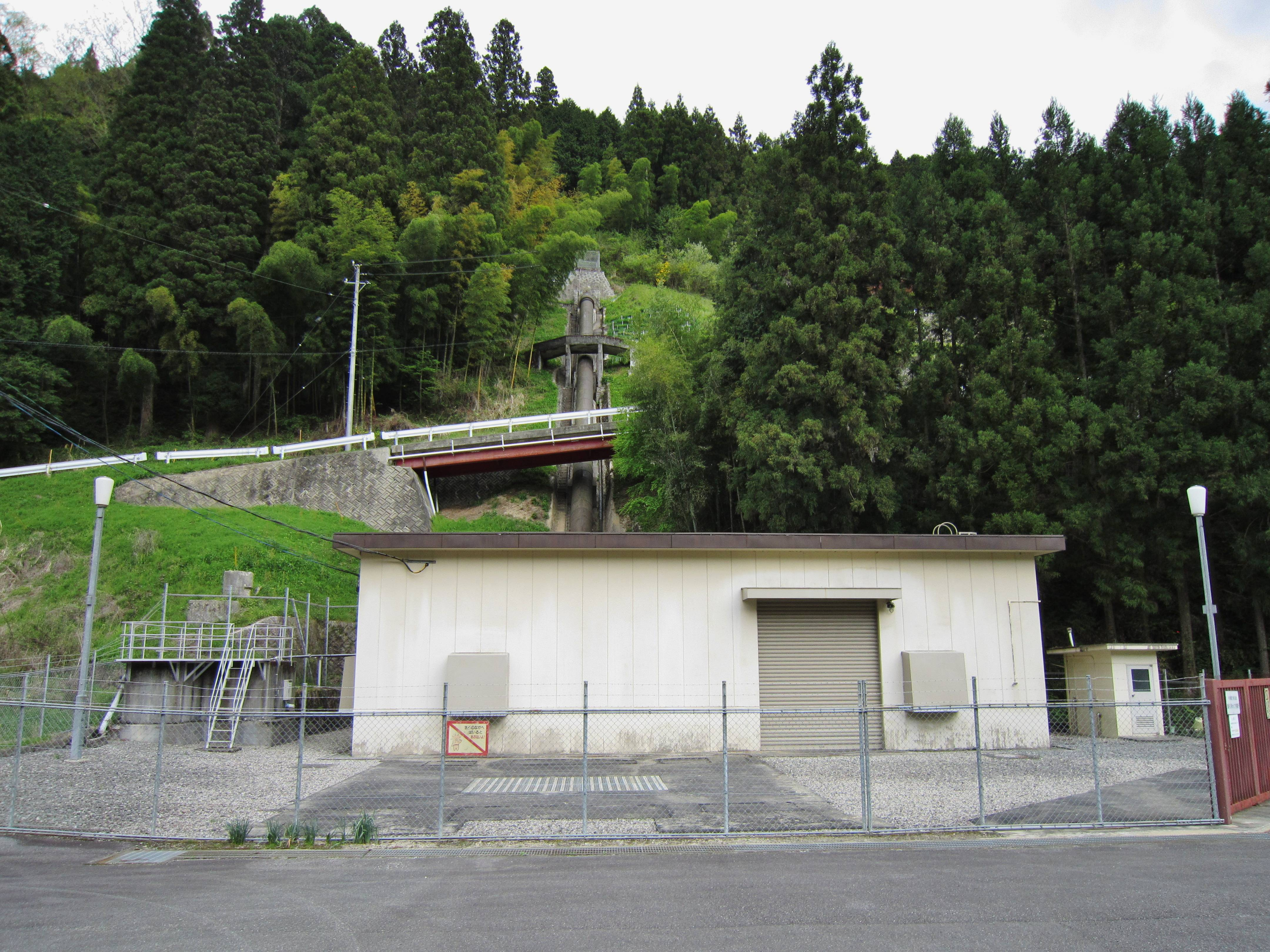 Iidabora power station.